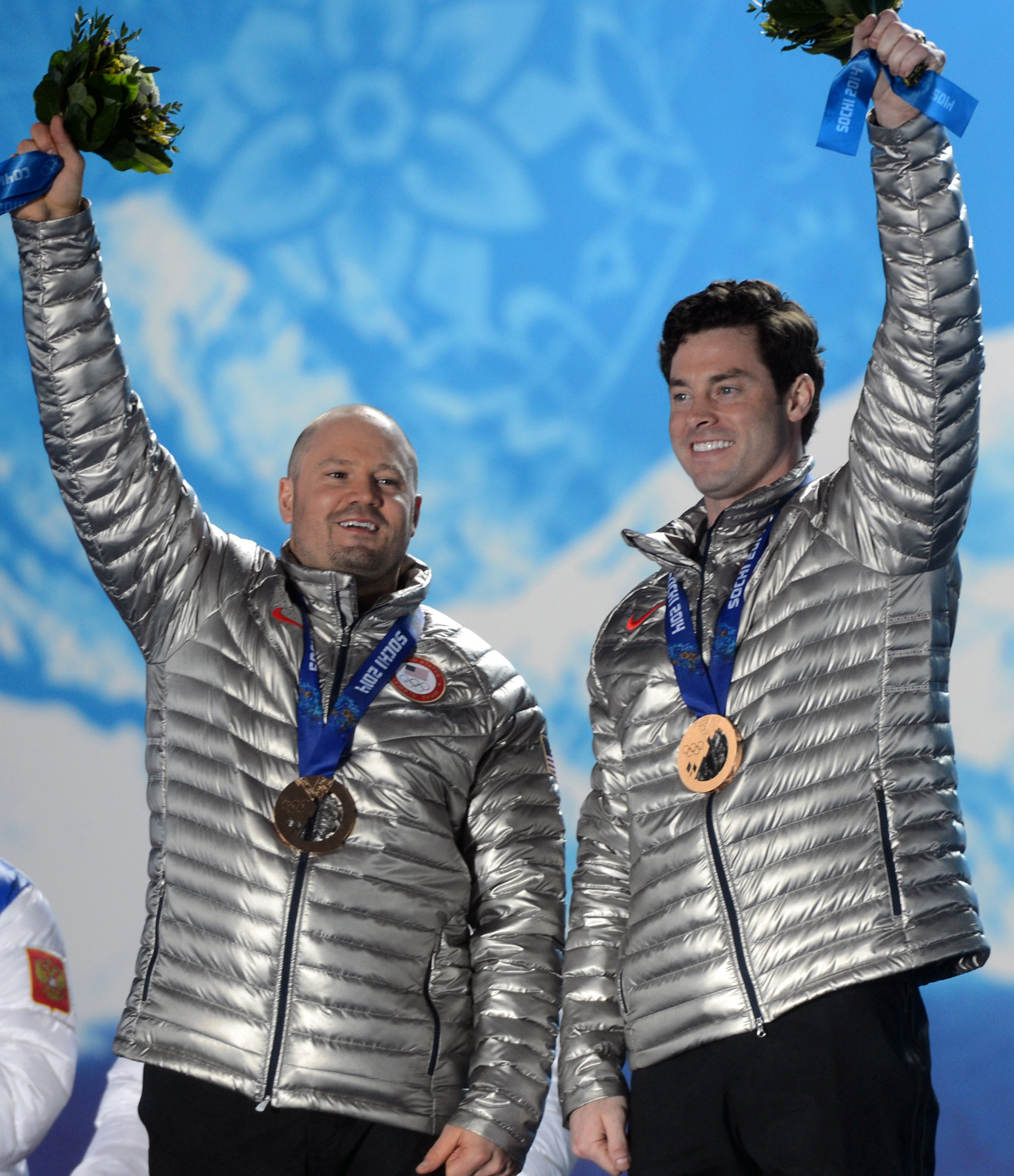 Former U.S. Army World Class Athlete Program bobsledder Steven Holcomb of Park City, Utah, and Steve Langton of Melrose, Mass., hoist the flowers and display their bronze medals during the Olympic two-man bobsled medal ceremony Feb. 18 at Olympic Park in Sochi, Russia. The Russian on the left is Alexander Zubkov, who drove Russia-1 to the gold medal with Alexey Voevoda aboard. (U.S. Army photo by Tim Hipps)